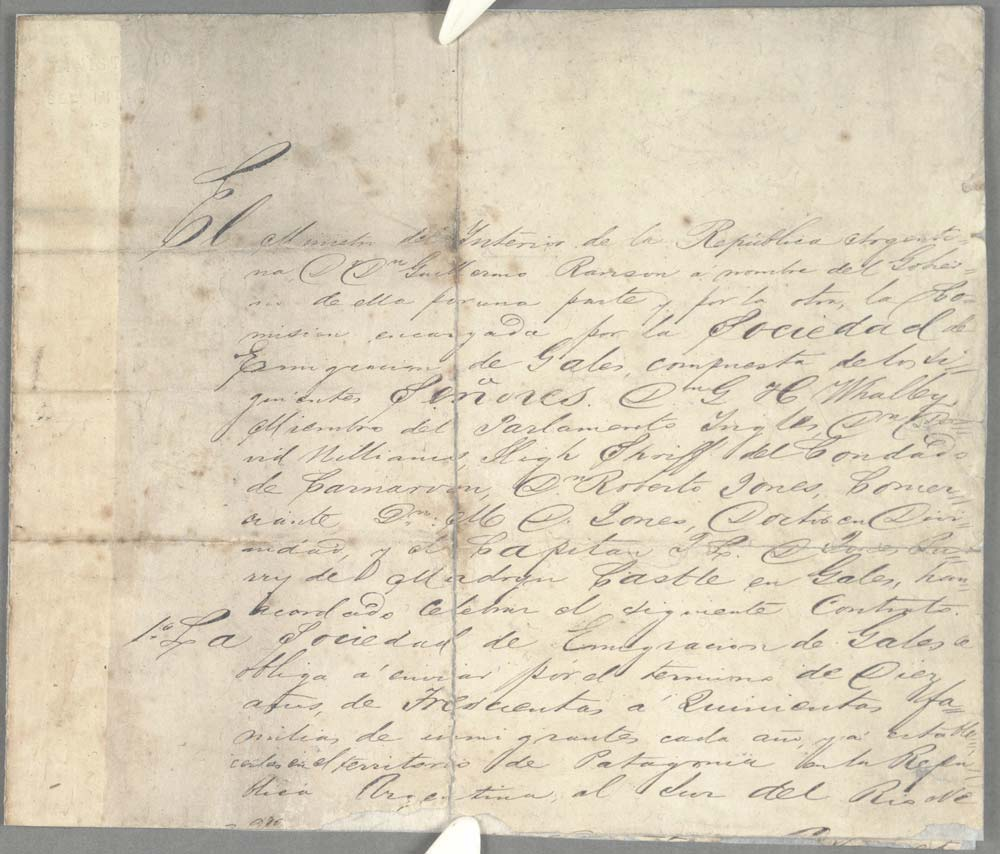 The agreement was signed on 25 March 1863 by Love Jones-Parry (1832-91), Lewis Jones (1836-1904) and Dr Guillermo Rawson (1821-90), Argentine Minister for Home Affairs. In the agreement Rawson offers a piece of land to the settlers on condition that Patagonia is recognised as an Argentine province once the population reaches 20,000.